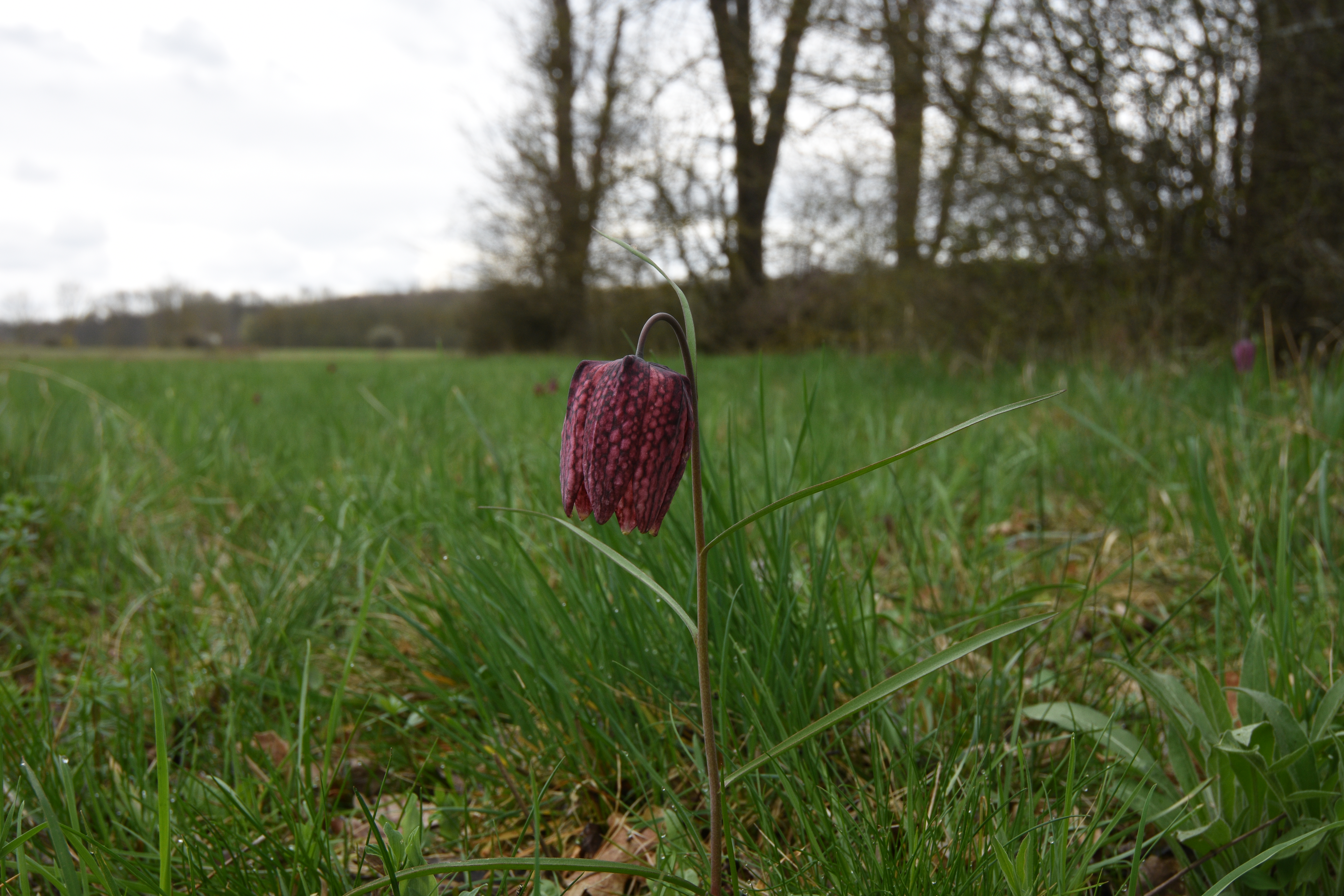 Luising